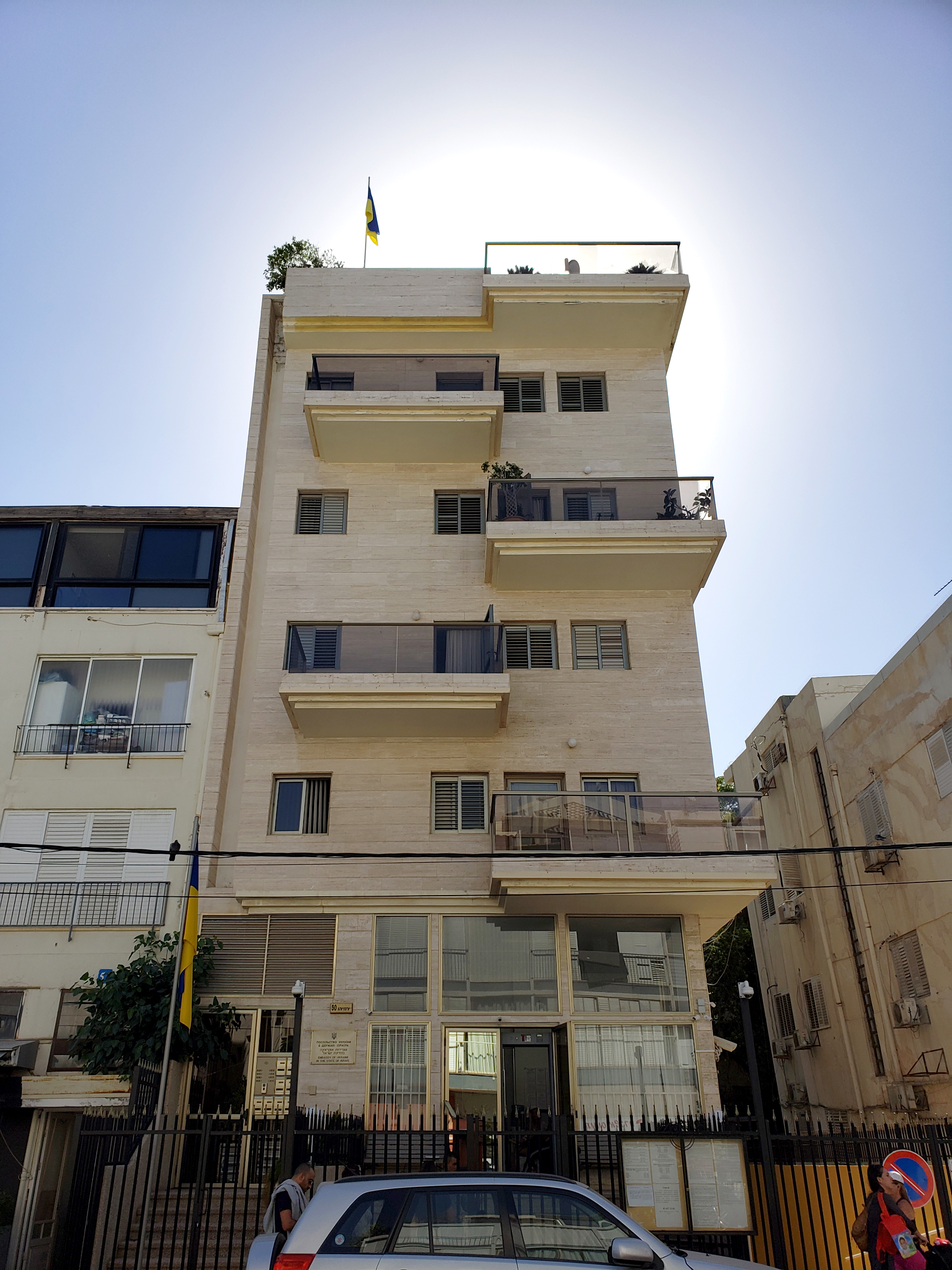 Exterior of the Embassy of Ukraine in Tel Aviv, Israel.